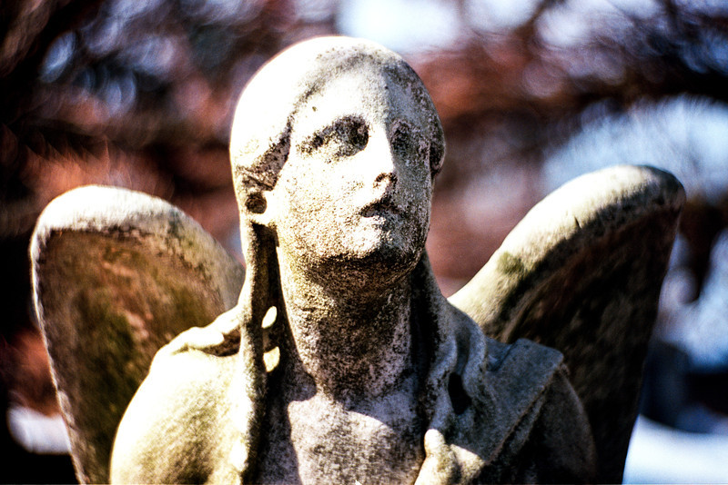 A pair of angels flank the burial marker of Charlotte Canda, Green-Wood Cemetery, Brooklyn, New York, United States